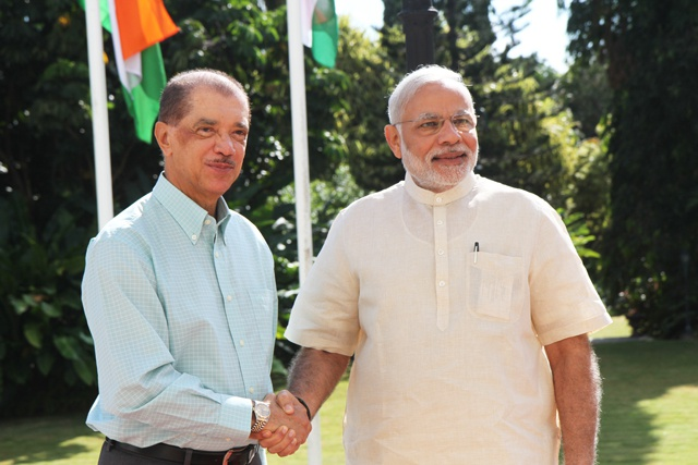 Seychelles President James Michel (left) shakes hands with Indian Prime Minister Narendra Modi (right) on the latter's offical visit to the Seychelles on 11 March 2015.